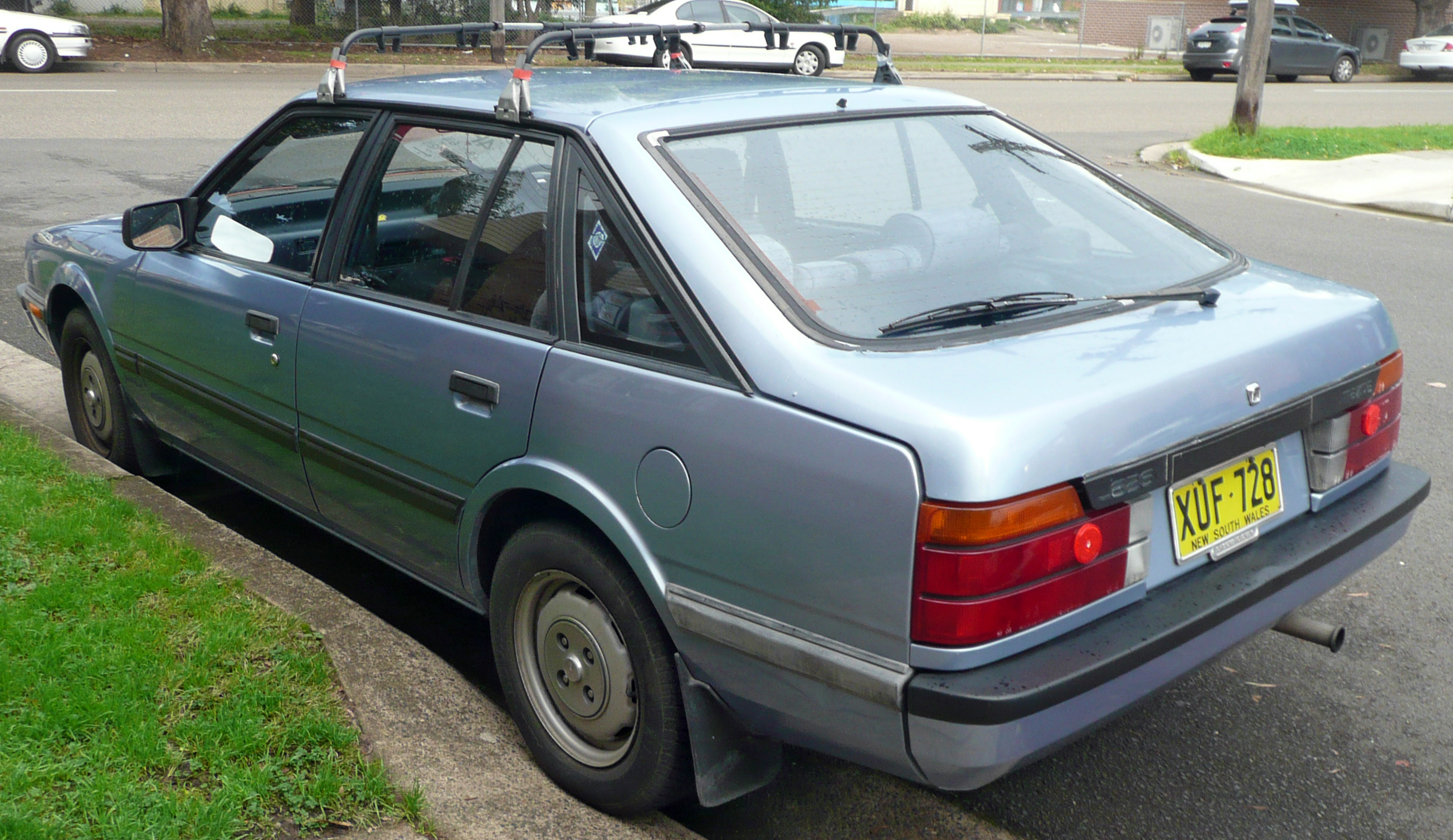 1983–1985 Mazda 626 (GC) Deluxe hatchback. Photographed in Sutherland, New South Wales, Australia.